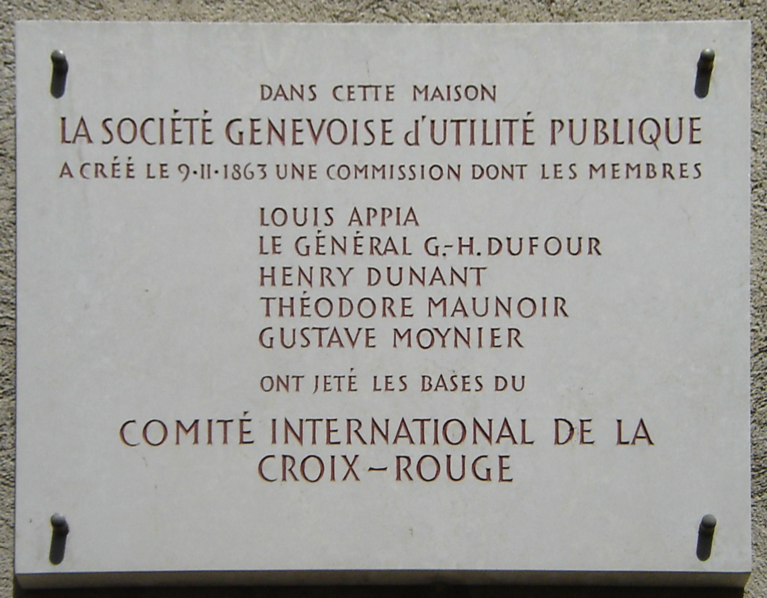 A memorial plaque in Geneva